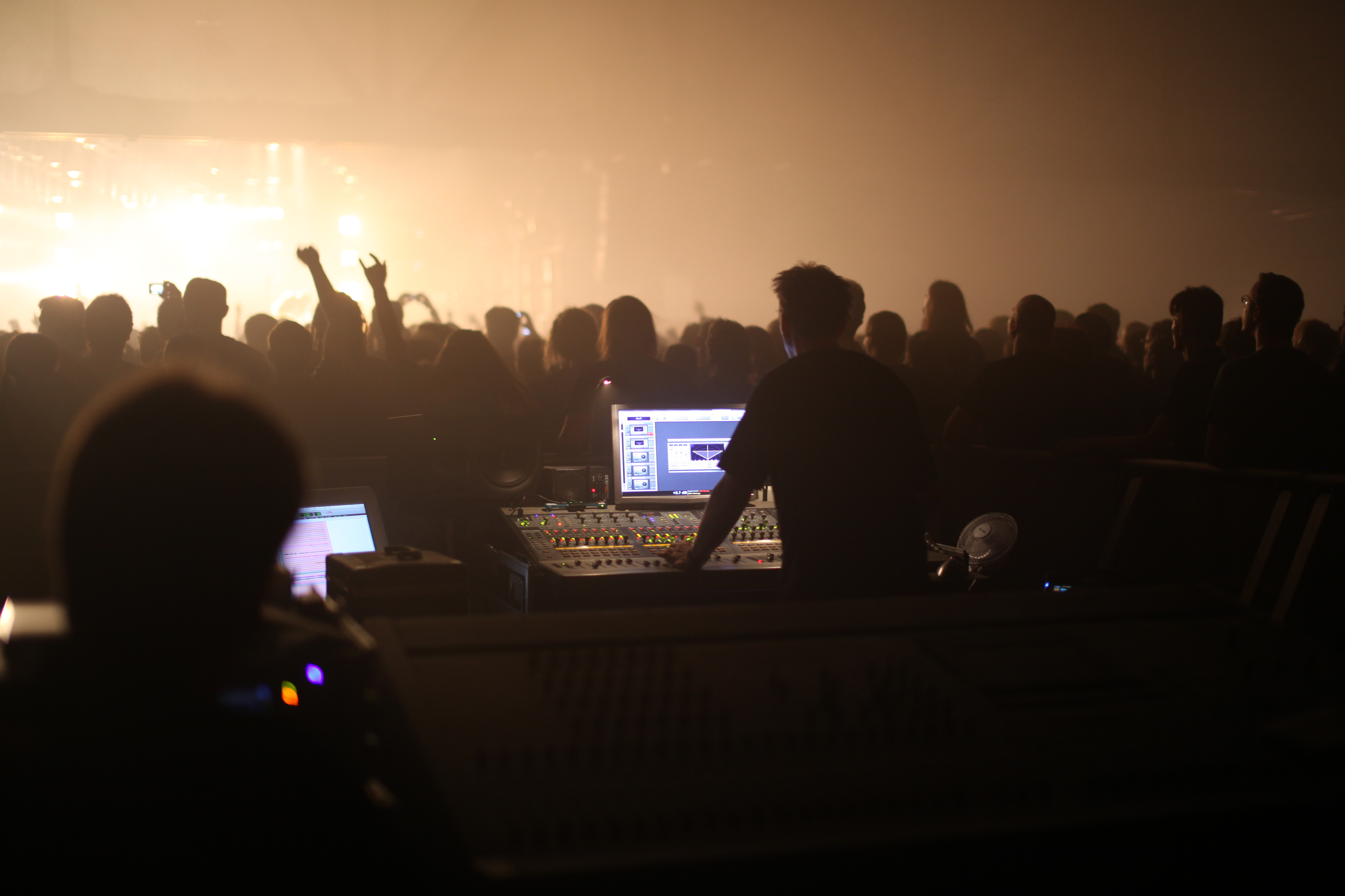 FOH Pete Keppler with digidesign VENUE Profile live digital mixer and Genelec monitoring. sweet. Adjusting waves spatial plugin.